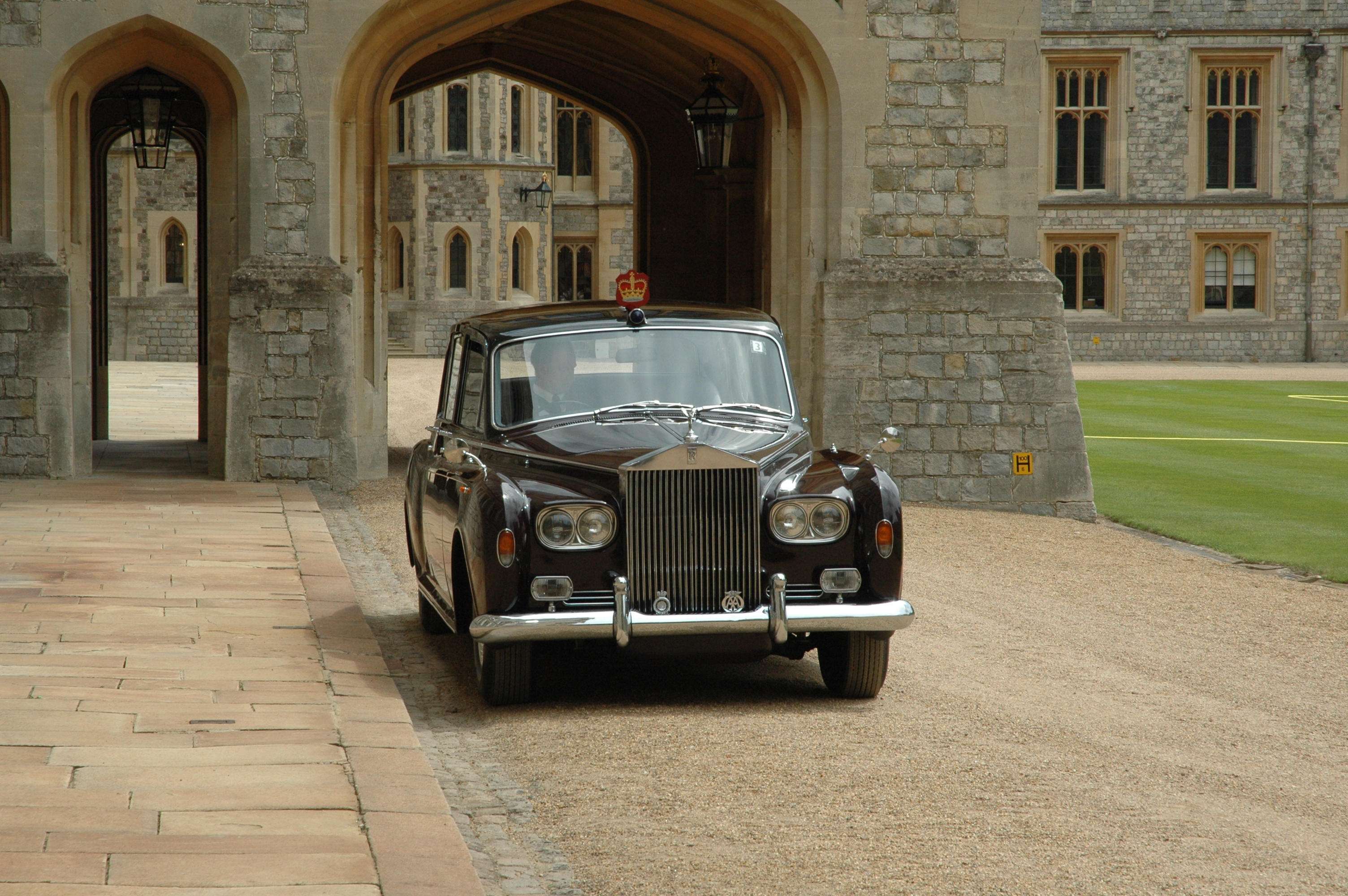 1986 Rolls-Royce Phantom VI of Queen Elizabeth II at Windsor Castle